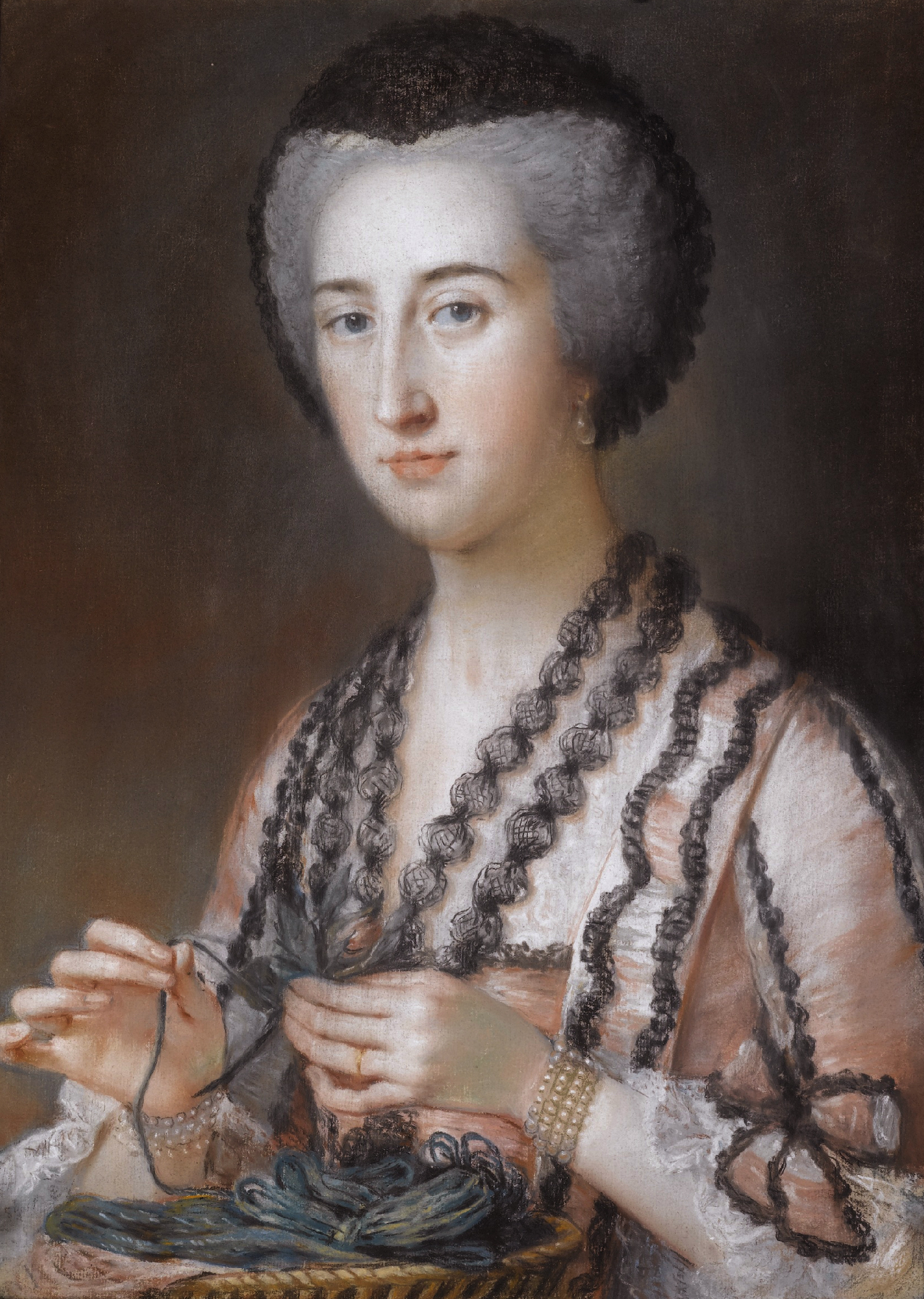 Portrait of Susanna Hoare, daughter of Henry Hoare II, Viscountess Dungarvan, wearing a widow cap, later Countess of Ailsbury (1732-1783)